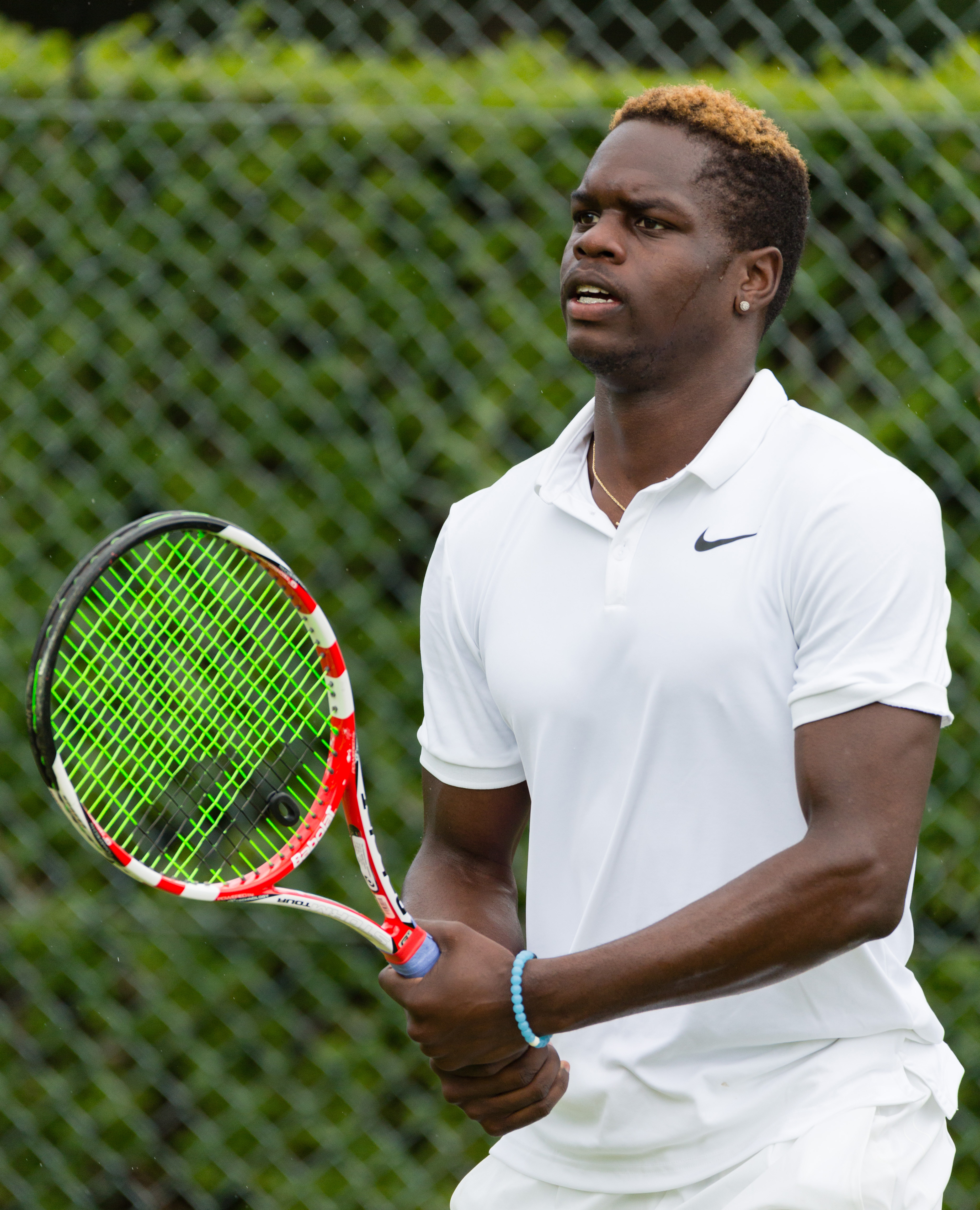 Jarmere Jenkins competing in the first round of the 2015 Wimbledon Qualifying Tournament at the Bank of England Sports Grounds in Roehampton, England. The winners of three rounds of competition qualify for the main draw of Wimbledon the following week